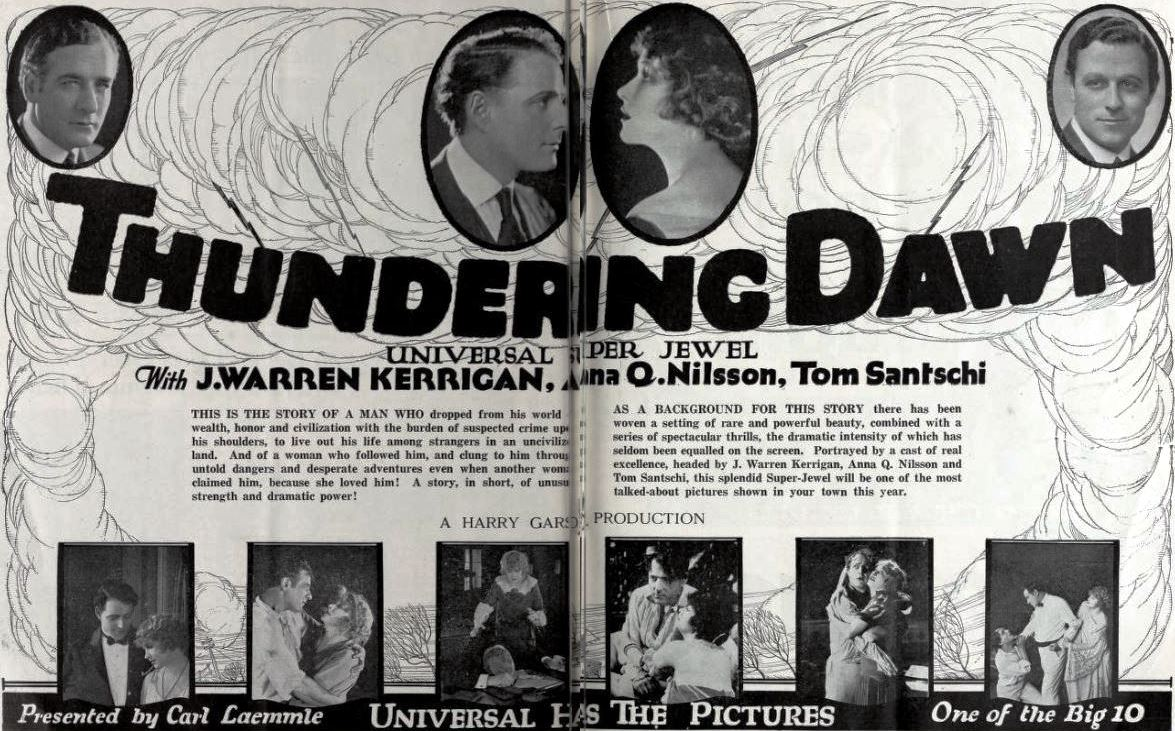 Advertisement for the American drama film Thundering Dawn (1923) with J. Warren Kerrigan, Anna Q. Nilsson, and Thomas Santschi, on pages 20 and 21 of the October 6, 1923 Universal Weekly.